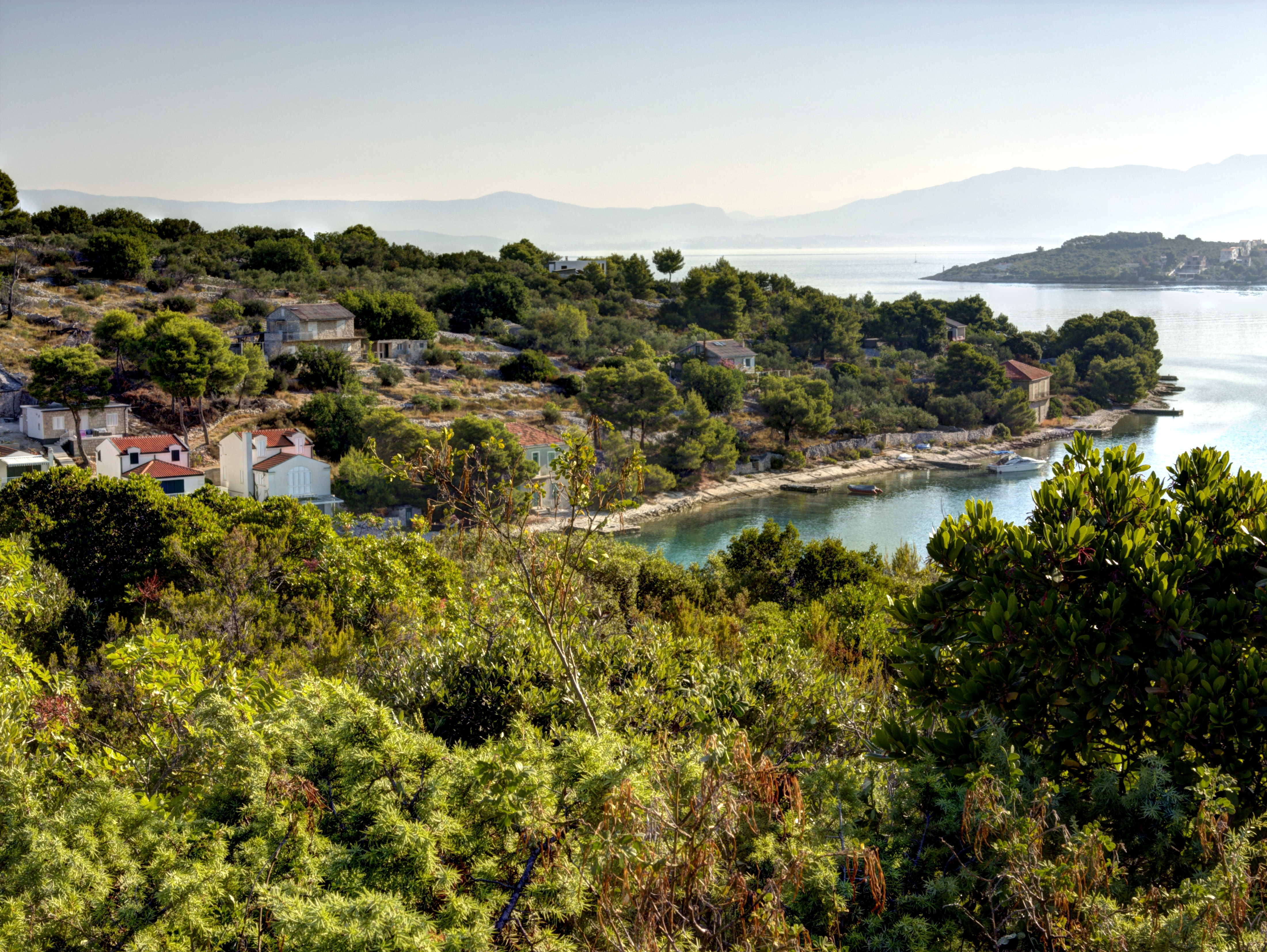 Podkamenica or Pod Kamenica in the bay of Nečujam Šolta / Croatia / Adriatic Sea. Along this section of coast between the houses in ancient limestone blocks were carved for the production of olive oil vessels from the rock. Of which is derived from the name of the bay.